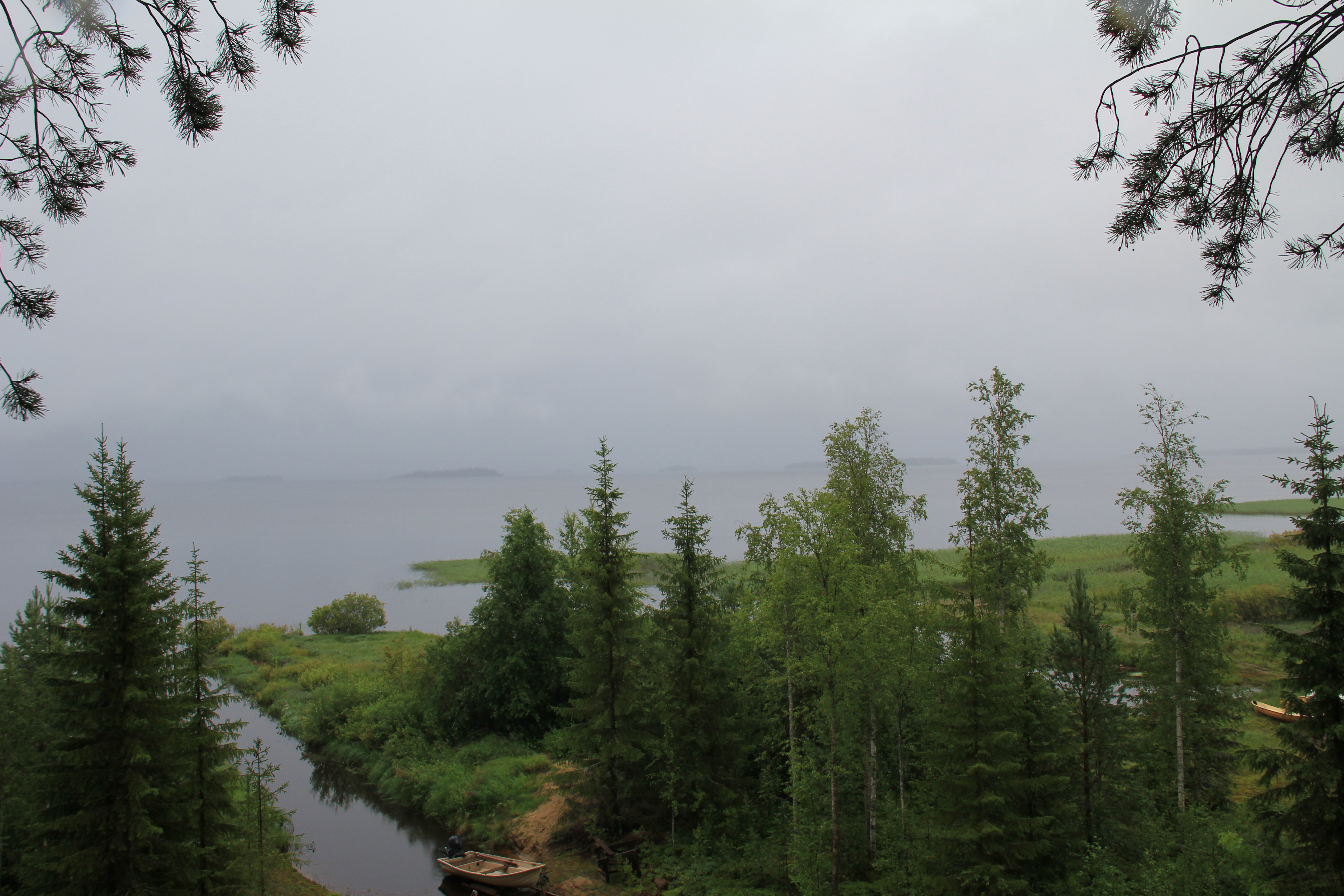 Oulujärvi (Lake) seen from Paltaniemi museum road, Kajaani, Finland.